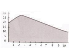 Frankeston dairy production curve